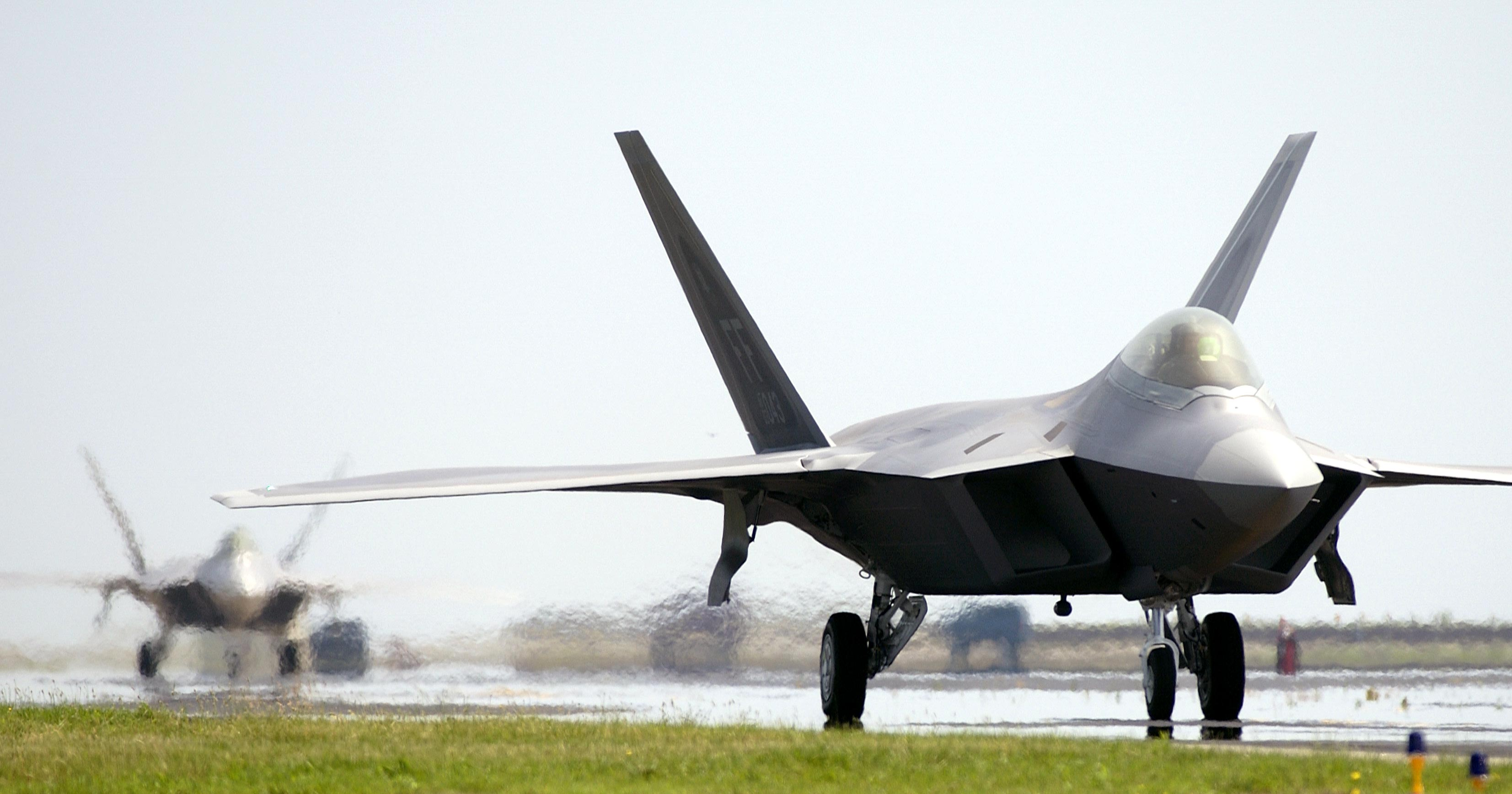 LANGLEY AIR FORCE BASE, Va. -- Lt. Col. Wade Tolliver delivers the second permanent F/A-22 Raptor here June 8. Shortly after, Maj. Charles Corcoran delivered the base's third Raptor. Colonel Tolliver is the 27th Fighter Squadron director of operations, and Major Corcoran is a pilot with the squadron. (U.S. Air Force photo by Tech. Sgt. Ben Bloker)